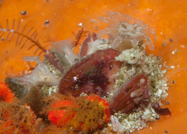 Photo of bell stalked jellyfish Lipkea stephensoni taken at Atlantis Reef False Bay Cape Town in 22.9m of water.